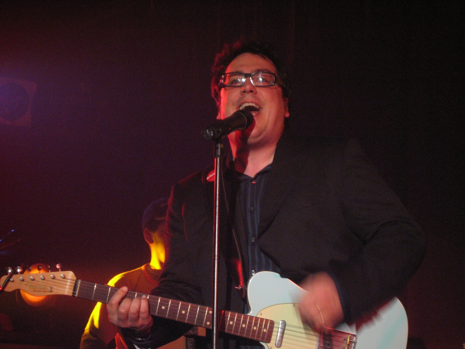 John Flansburgh performing at the New Years Eve Concert at Northsix